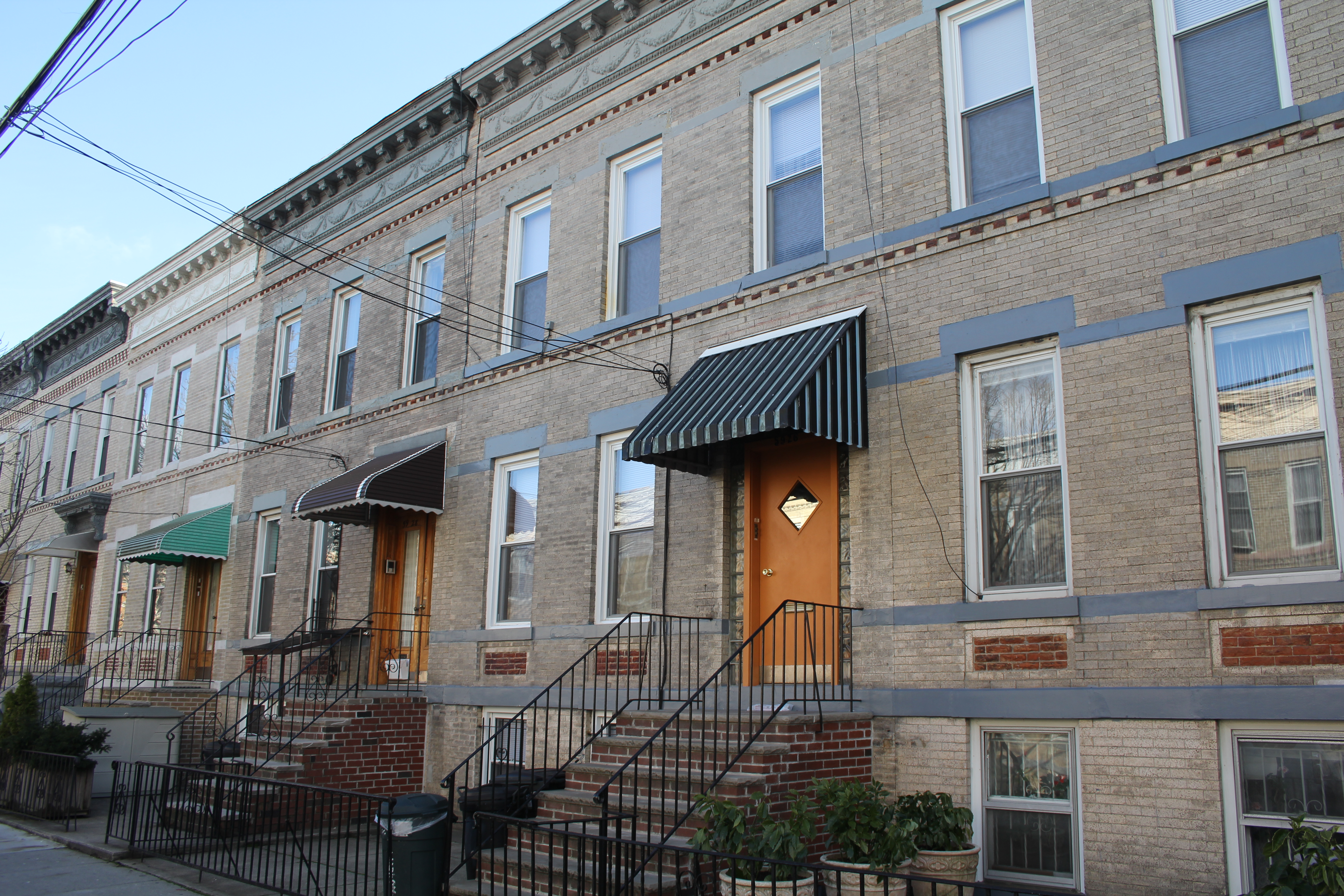 A row of houses in the Madison-Putnam-60th Place Historic District, which is listed on the National Register of Historic Places (NRIS #83001777).